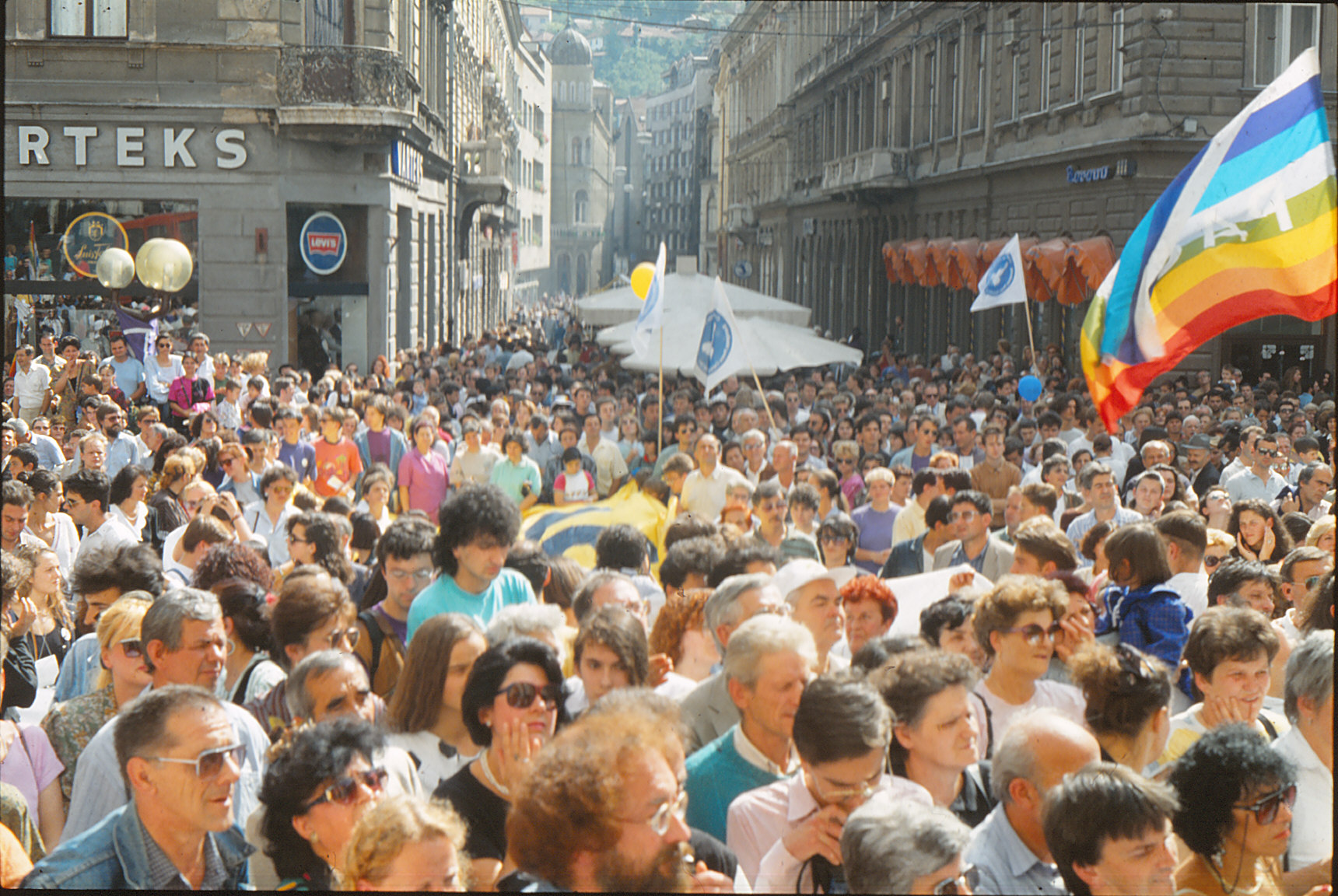 Pics by Giovanni Zanchini on the October 1991 Peace March from Trieste to Sarajevo through Ljubljana and Zagreb and then Dubrovik. Released in Public Domain thanks to Osservatorio Balcani e Caucaso's "Cercavamo la pace" crowd-sourcing project [1]